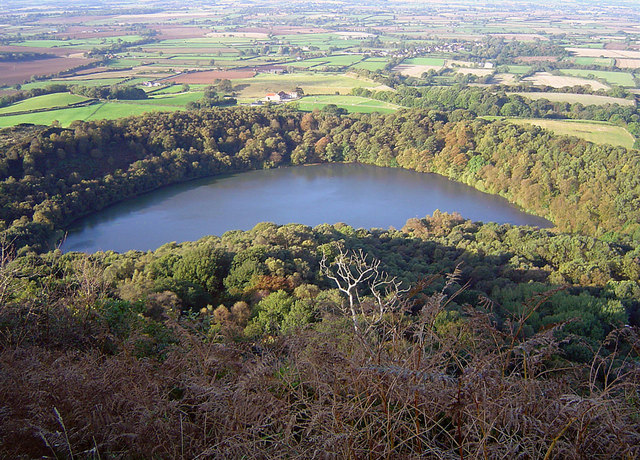 Lake Gormire. Taken from the top of Whitestone Cliff. The wooded area below is Garbutt Wood and the tree line on the far side of the lake is Gormire Rigg.The village in the distance is Sutton-under-whitestoncliffe.